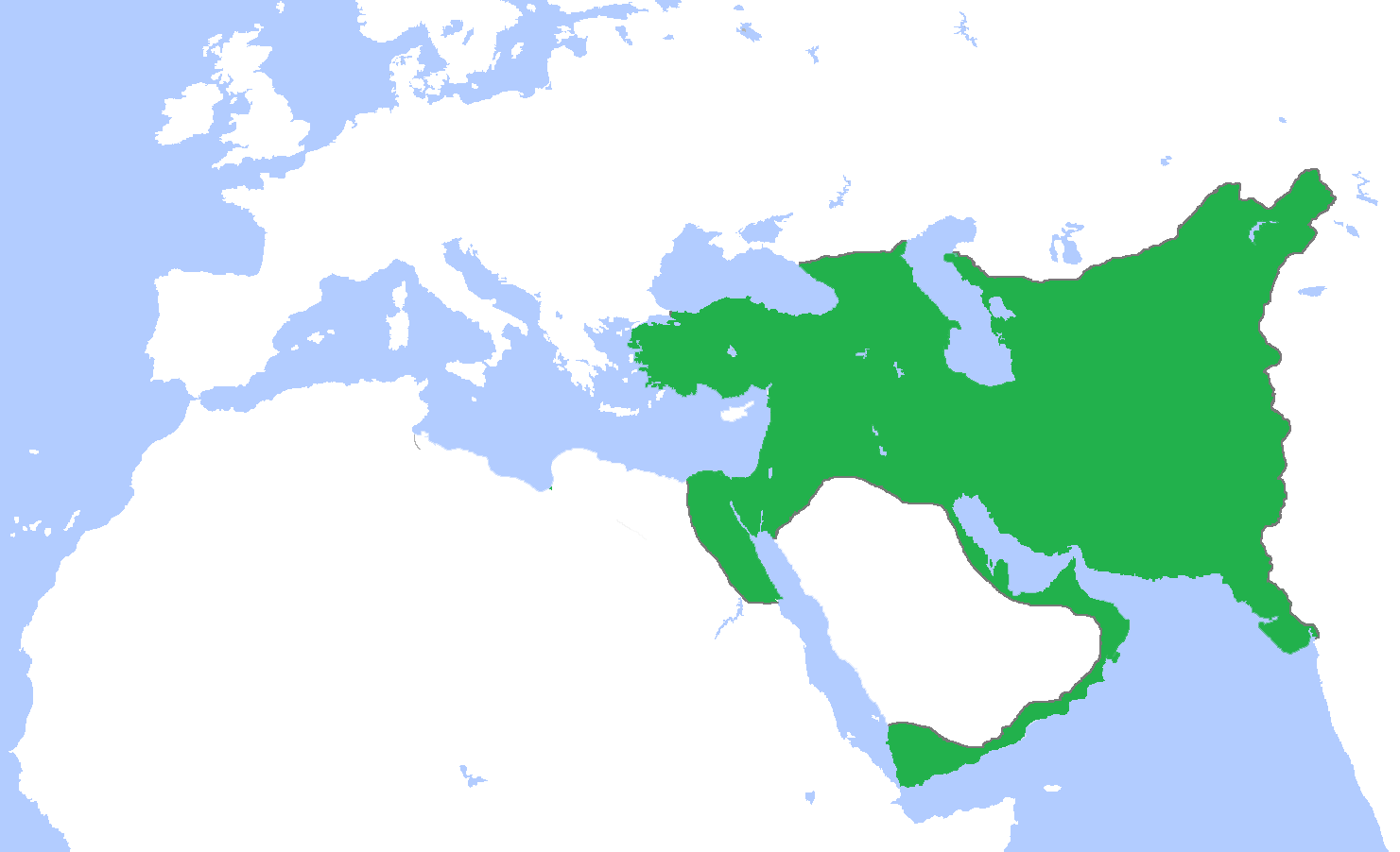 This is another map of the Sassanid empire i have created, this map is based on this picture: and some other pictures.